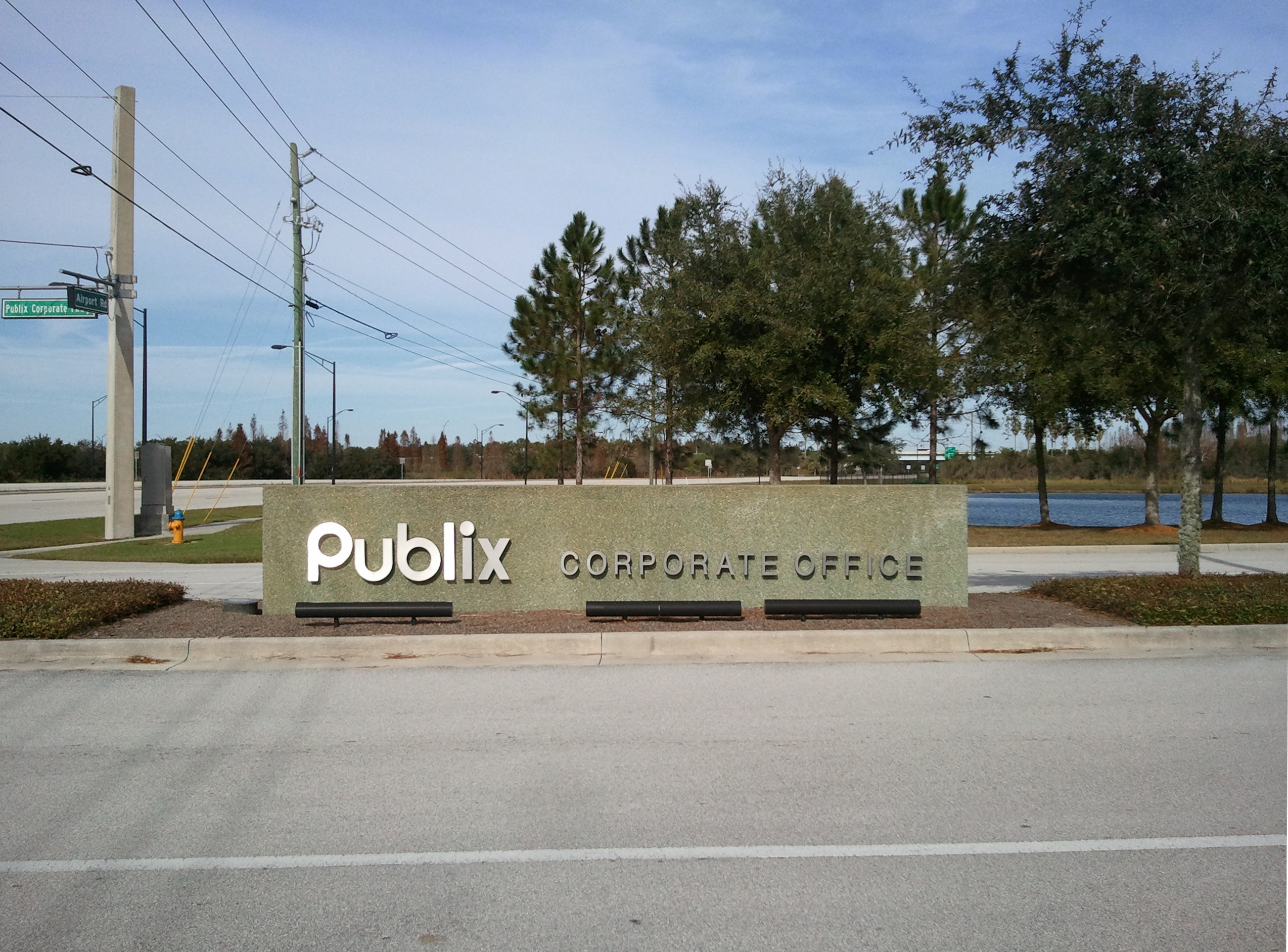 Sign of the Publix corporate headquarters, Lakeland, Florida